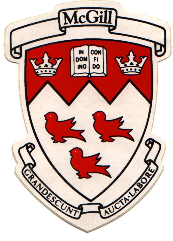 McGill University Coat of Arms